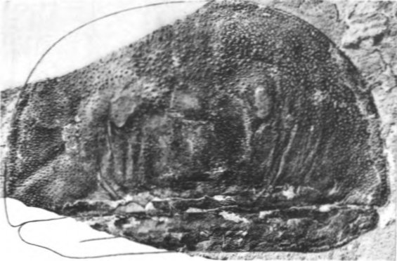 Crop of file in filename